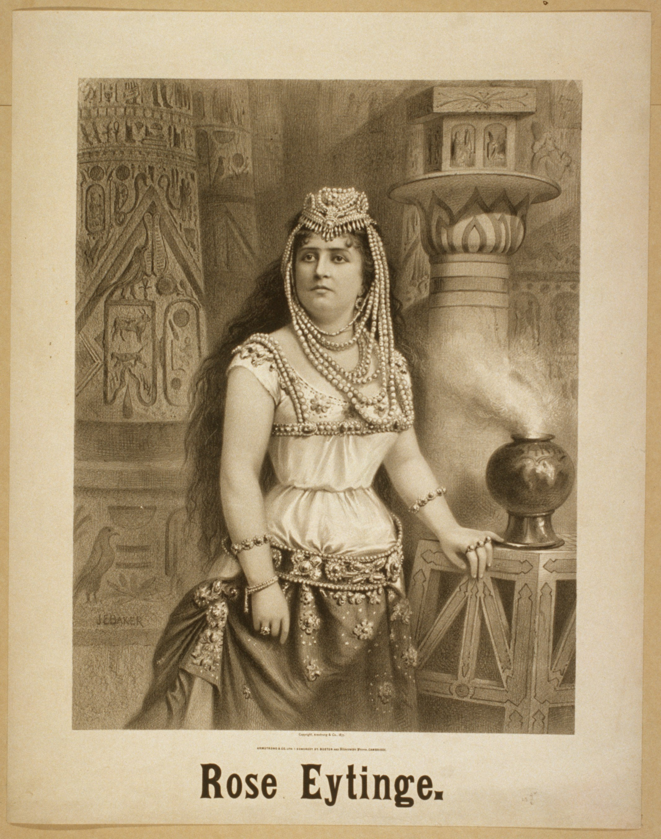 Title: Rose Eytinge Abstract/medium: 1 print : black and white lithograph ; sheet 68 x 53 cm. (poster format)